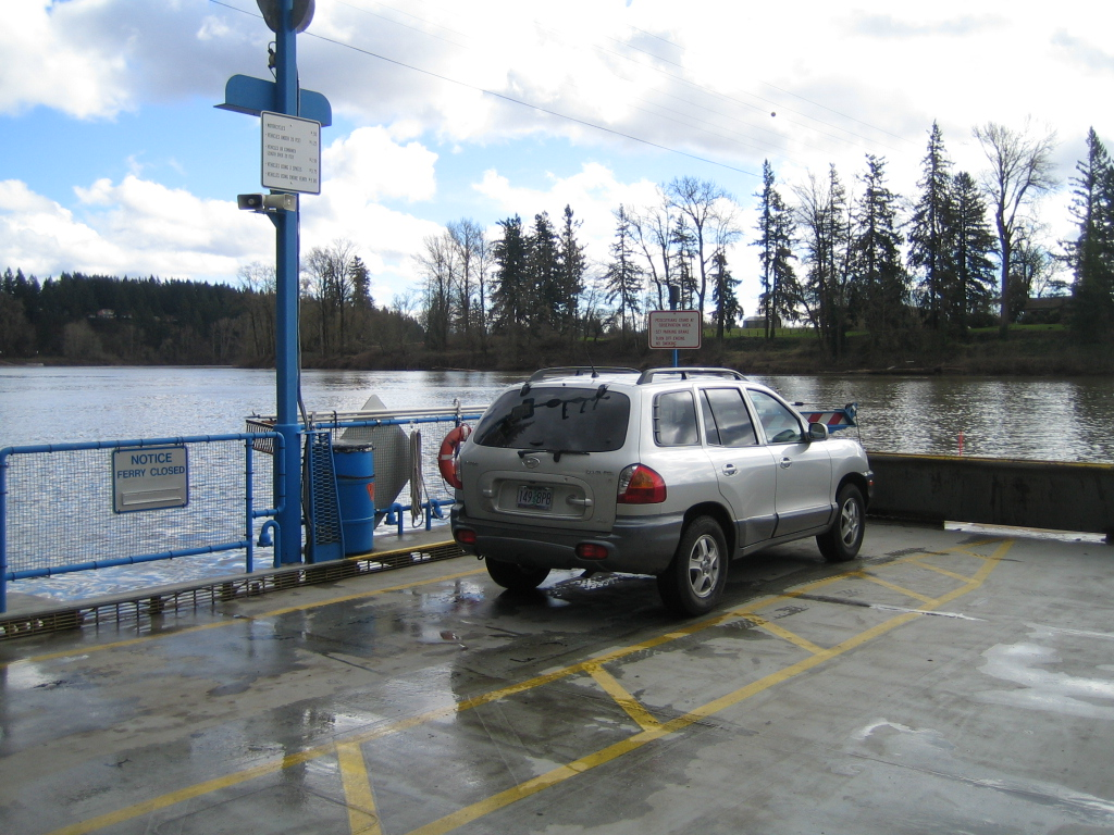 A car on the deck of the Canby Ferry.